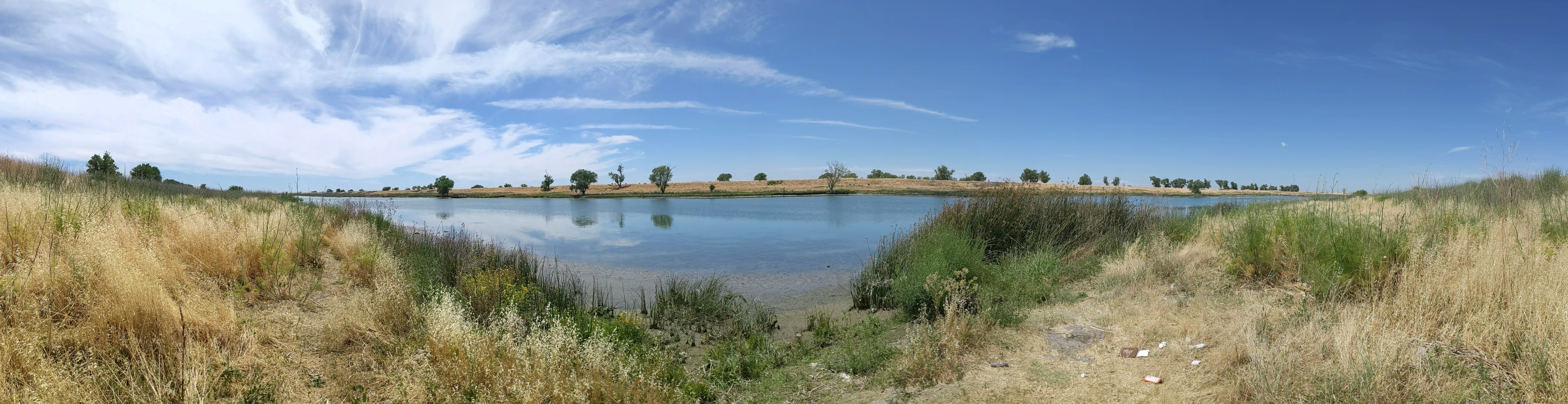 Sacramento deep water ship channel, from Levee Access Road at Marshall Road, West Sacramento California